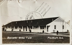 Photograph on a self-produced postcard. Taken in April, 1942 by Timothy P. McCullough, who was teaching aviation navigation at Grider at that time.